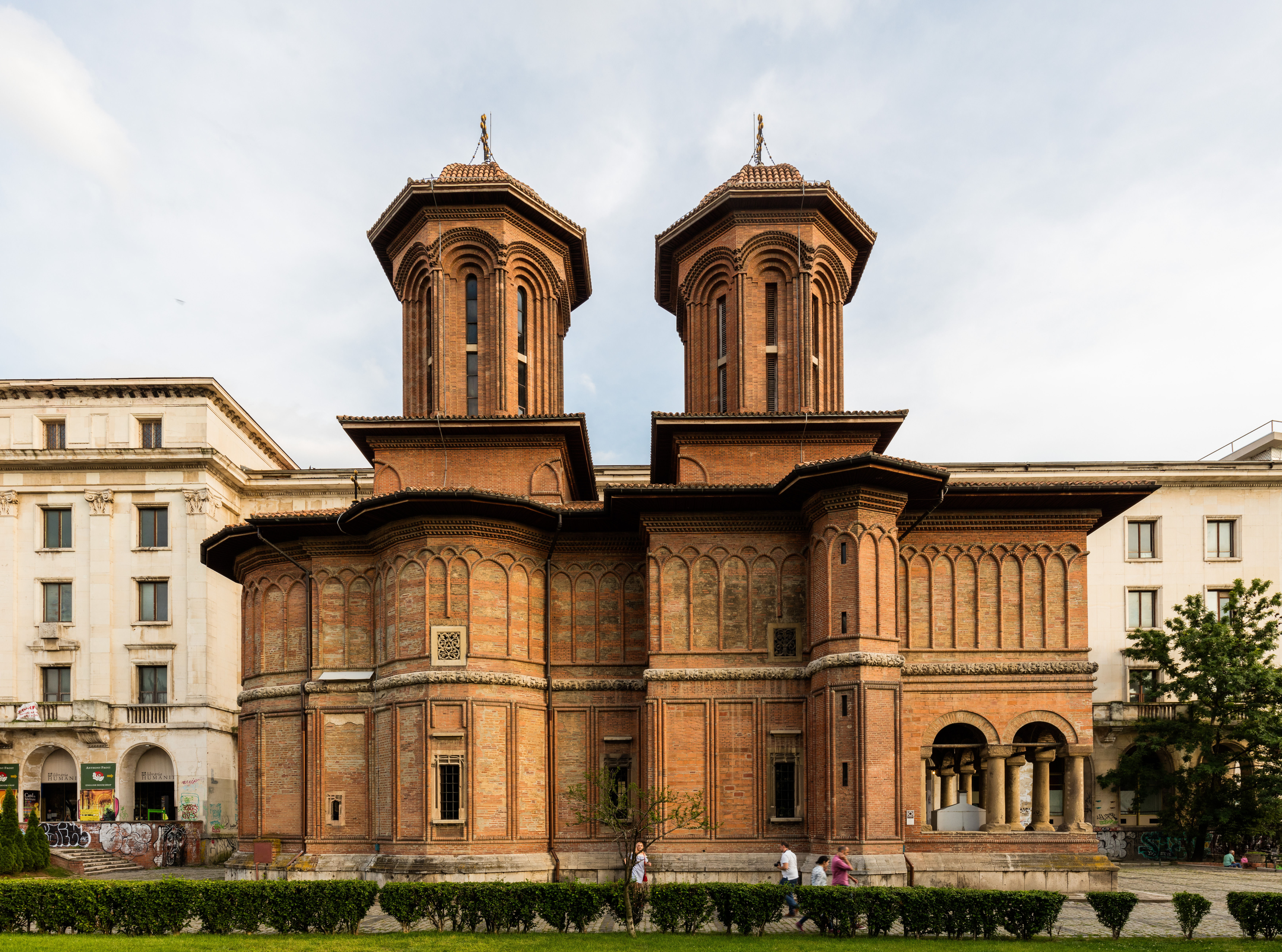 Kretzulescu Church, Bucharest, Romania